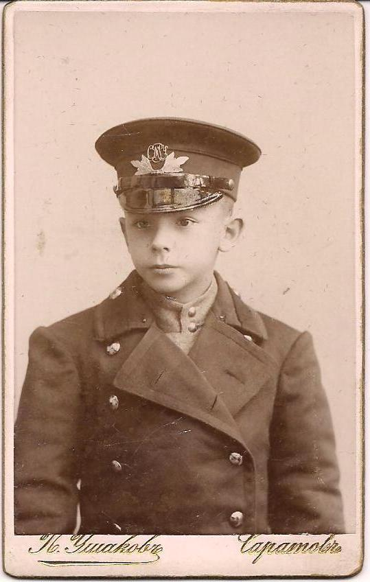 P. Nedonoskov is a pupil of the Real School